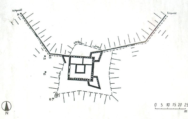 Fort Claudia (Hochschanz), Fortress Ehrenberg near Reutte (Tirol, Austria). Floor plan. Own photo, April 2007